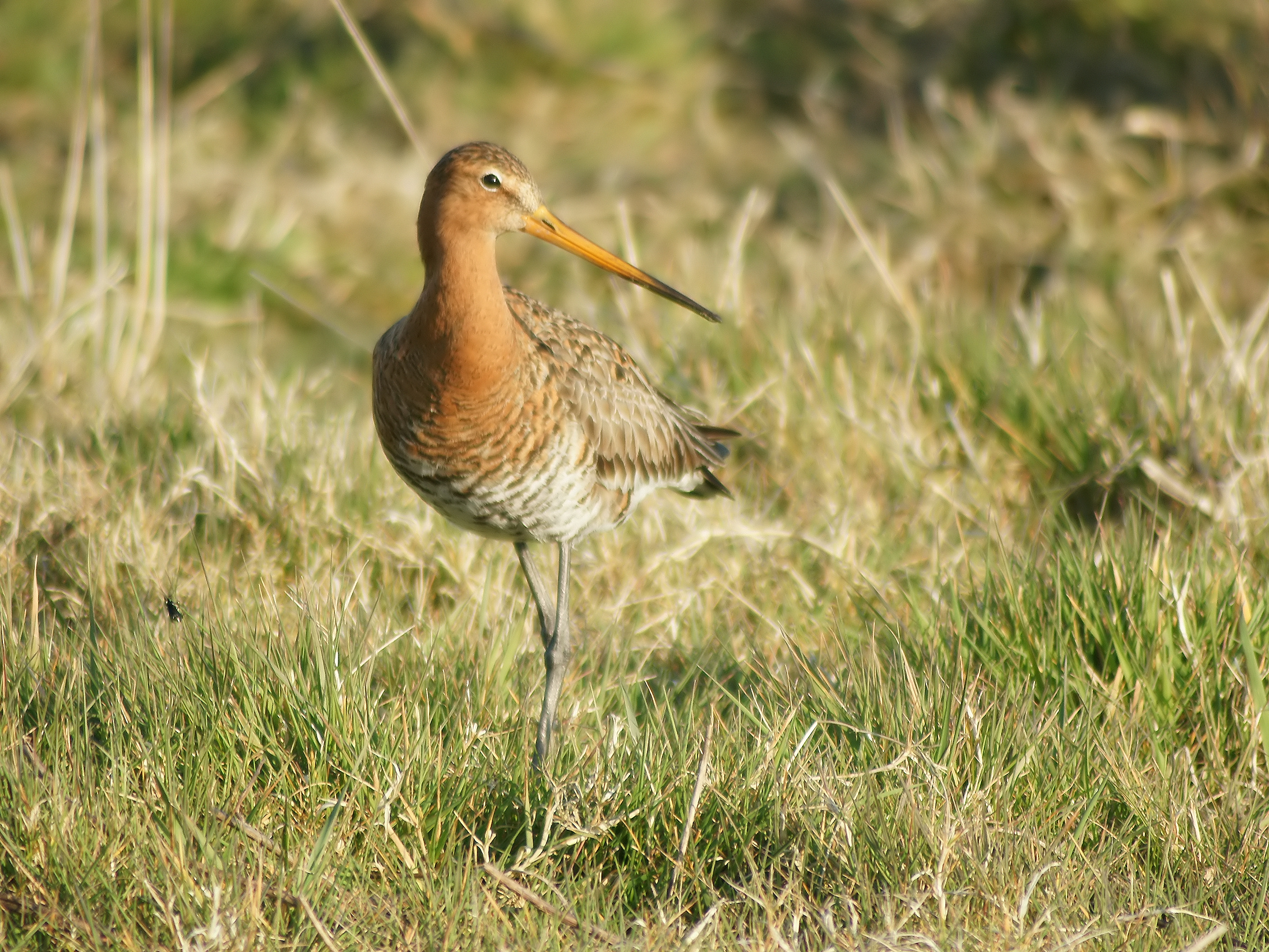 Black-tailed Godwit, Uitkerkse Polders, Belgium